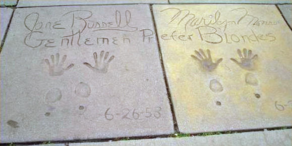 Marilyn Monroe and Jane Russell's concretes at the Grauman's Chinese Theatre in Hollywood from 1953 photographed in June 2011